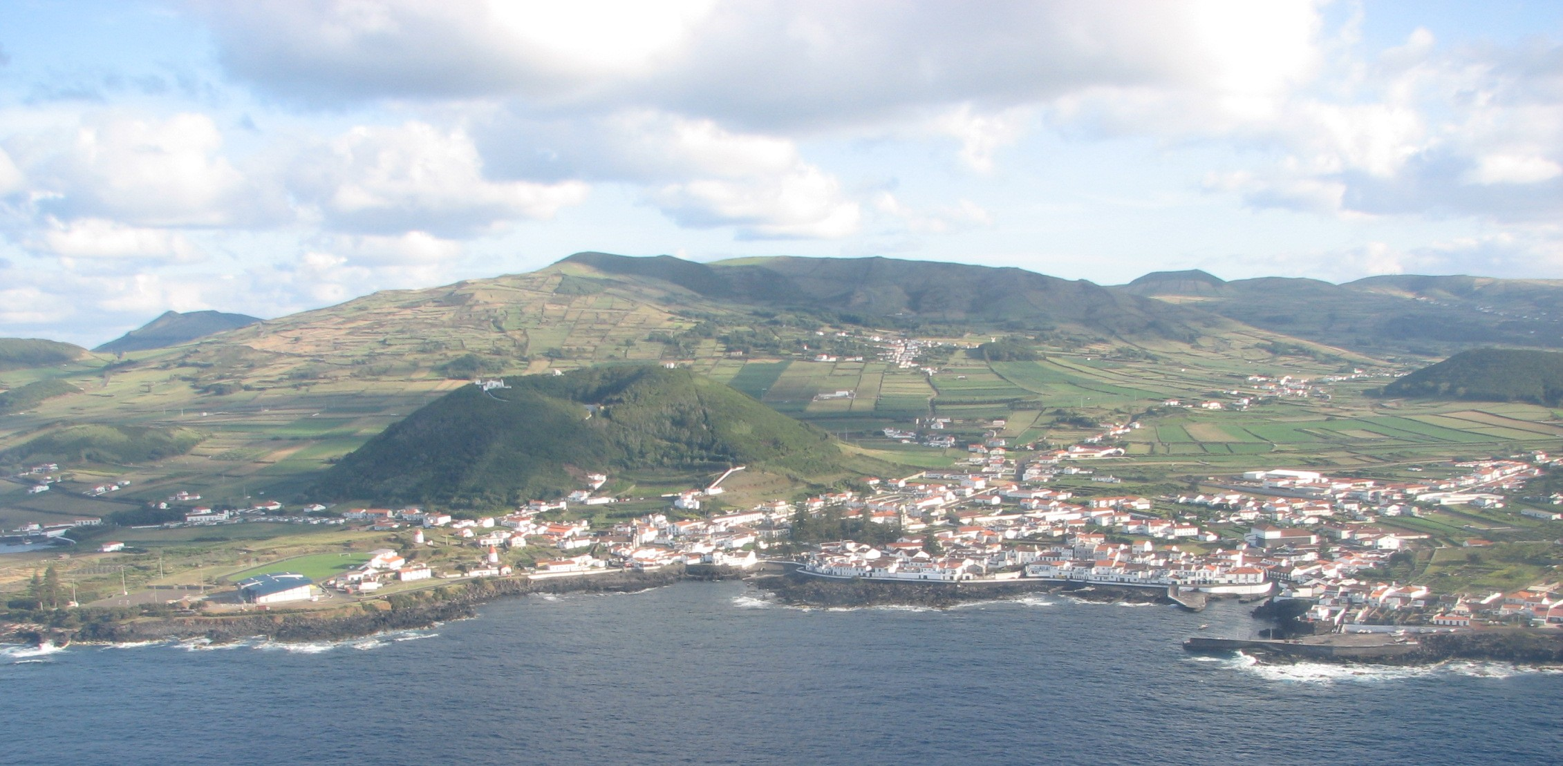 Santa Cruz da Graciosa, Azores, seen from a plane. At the center the Monte da Ajuda.